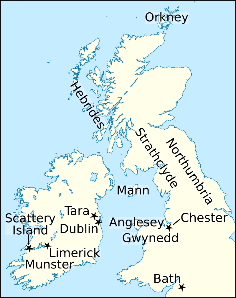 Map for the Wikipedia article concerning Maccus mac Arailt, King of Arailt (fl. 971–974).